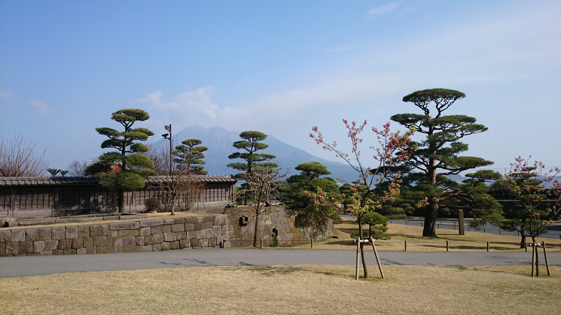 Sakurajima, Japan.